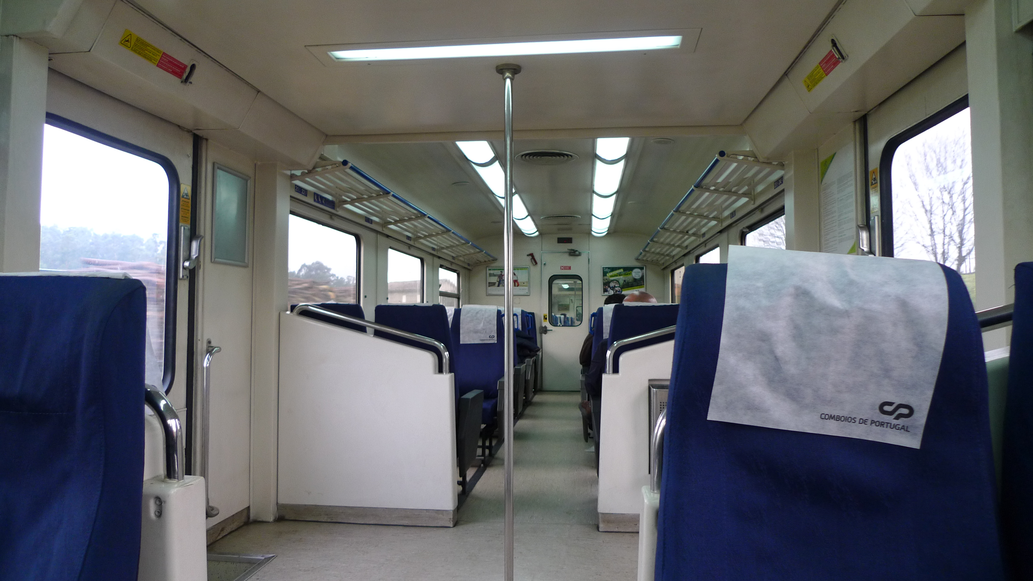 Train interior of the Portuguese train type 0592